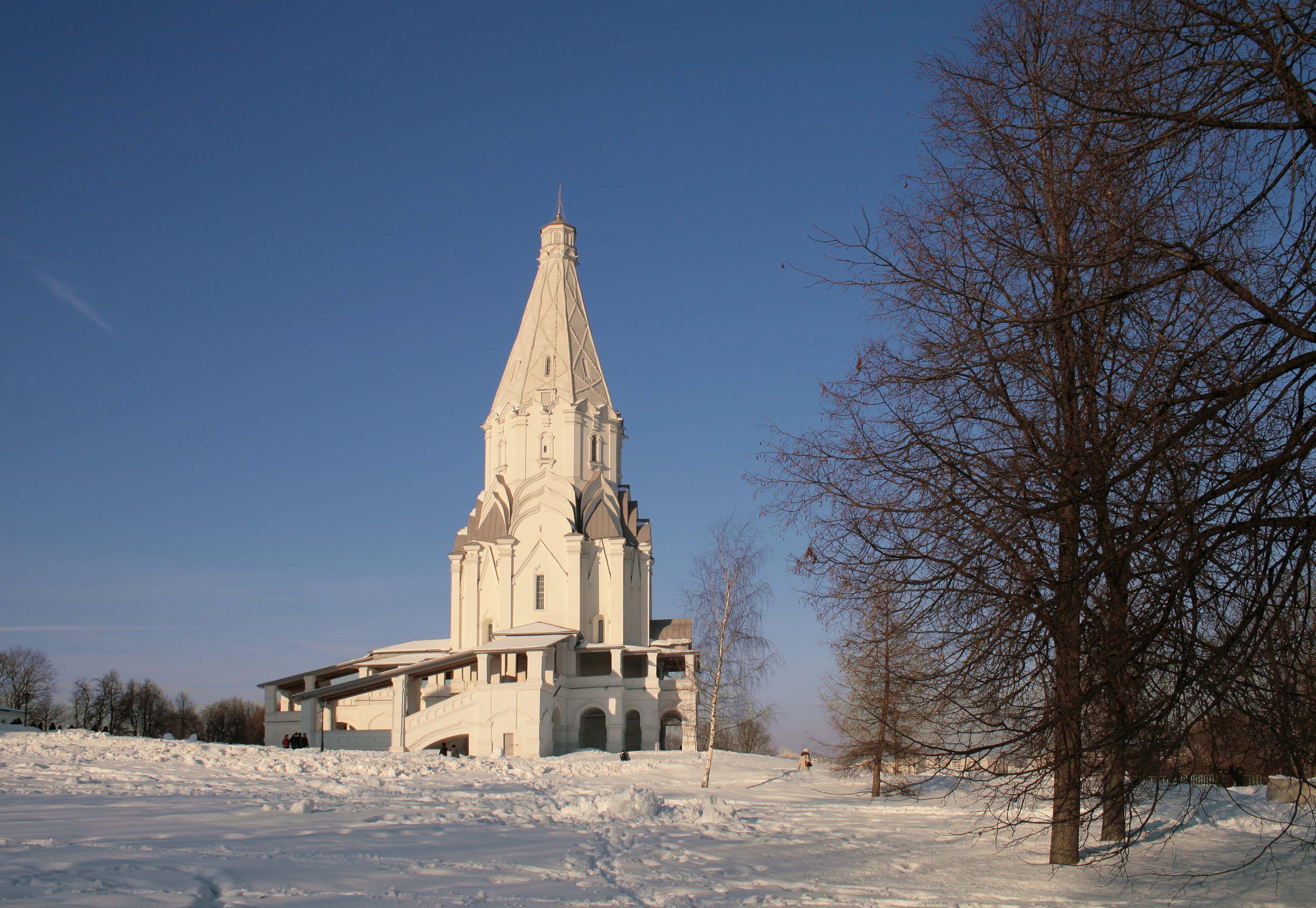 Ascension Church in Kolomenskoe, Moscow